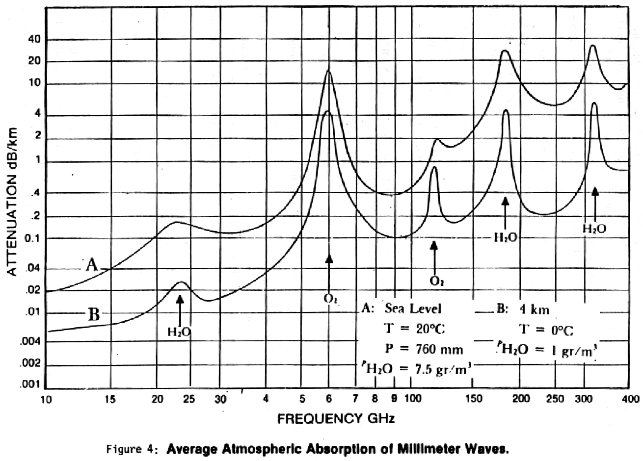 Atmospheric loss at millimeter wave (EHF) frequncies at sea level and 4 km altitude. Lower values indicate atmospheric transmission windows